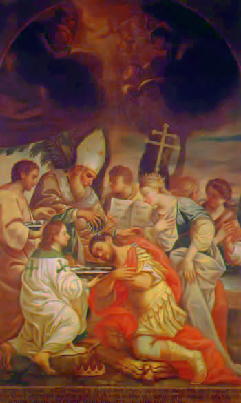 The painter of the icon is not St. Gregory.